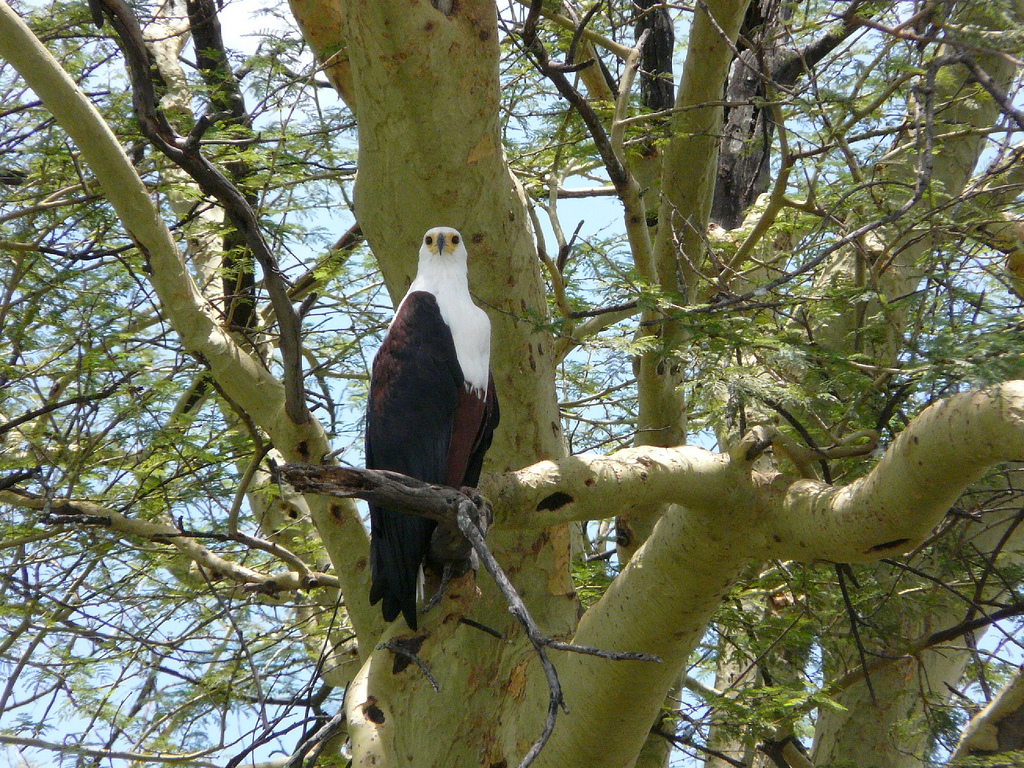 An African Fish Eagle perching in a tree in Machinga, Malawi.